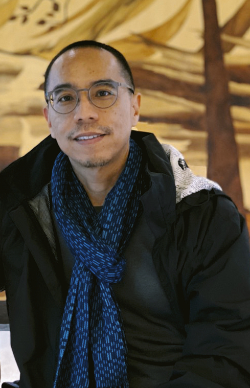 Apichatpong portrait